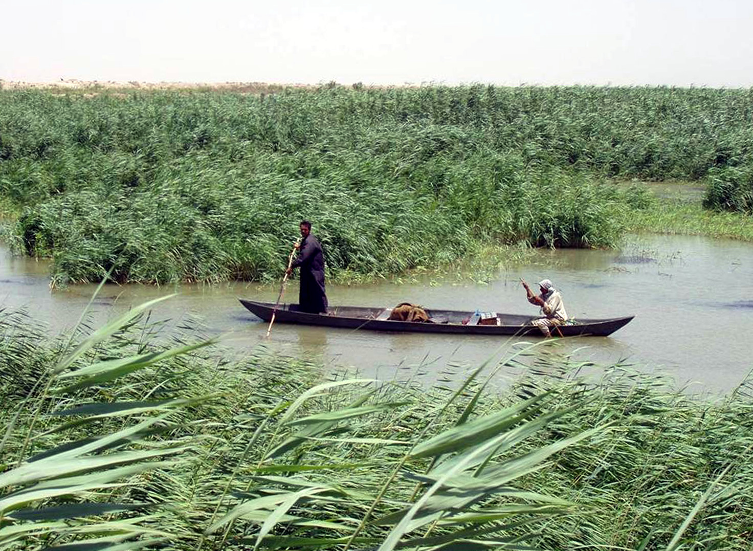 Marsh Arabs poling a traditional mashoof in the marshes of southern Iraq. Photograph slightly enhanced by contributor.